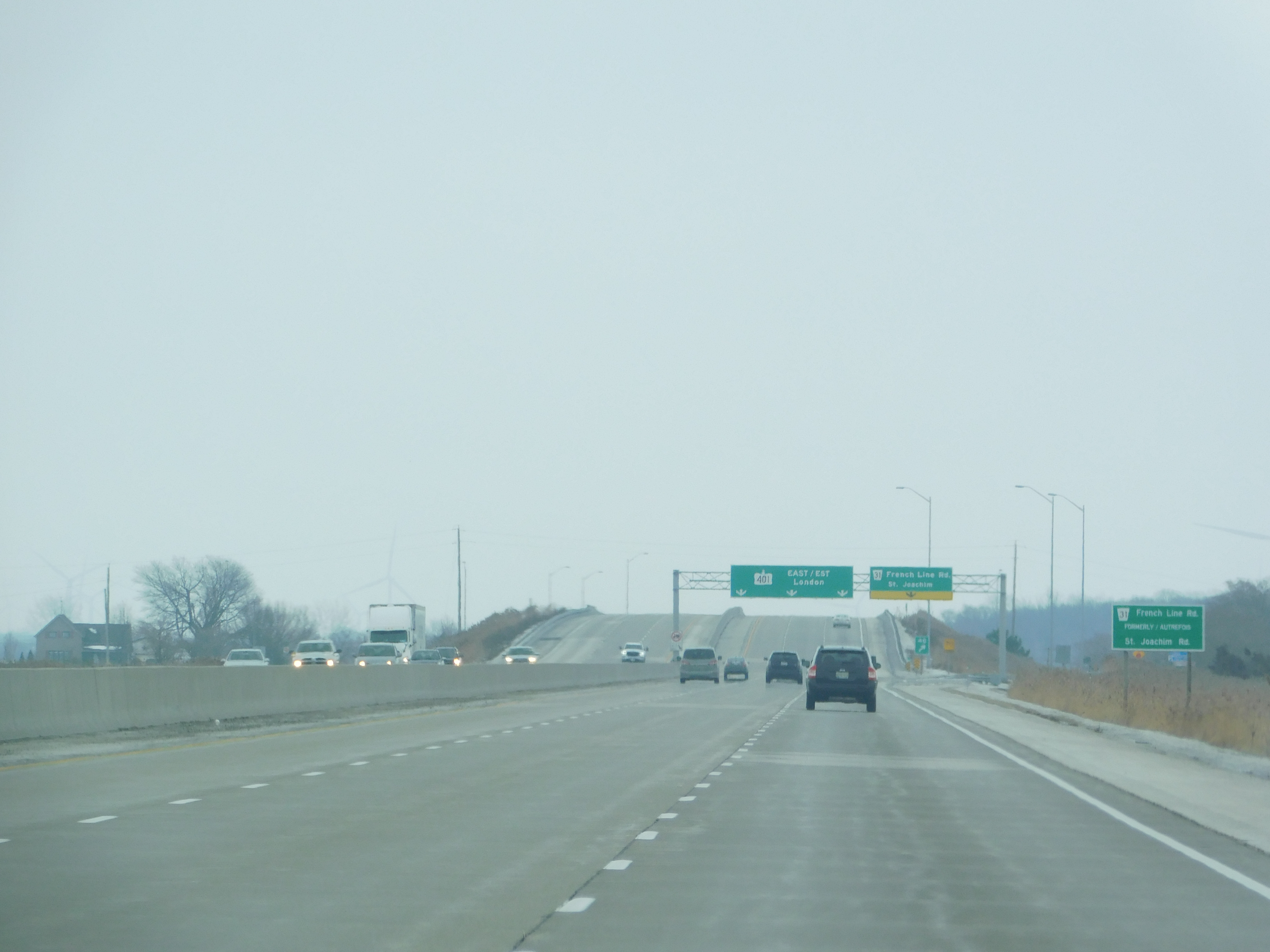 Windsor-Chatham, Ontario